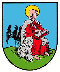 Coat of arms of Steinbach am Donnersberg